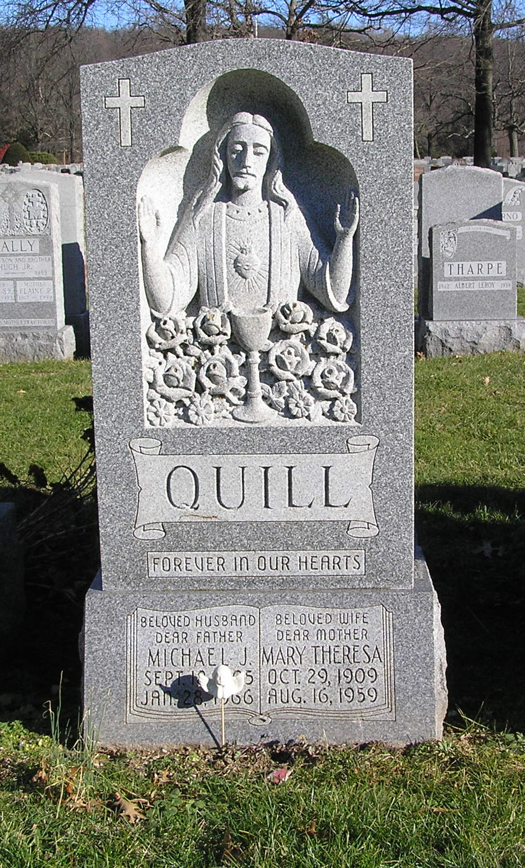 I took this photograph of the grave of Mike Quill in Gate of Heaven Cemetery on December 19, 2006. — GNU Free Documentation License